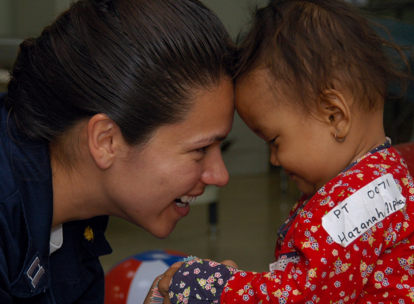 Kupang, Indonesia (Aug. 22, 2006) – Navy Lt. Rachel Oden, of Casa Grande, Ariz., a physical therapist aboard the Military Sealift Command (MSC) hospital ship USNS Mercy (T-AH 19), plays with a young girl during her first day of physical therapy for her neuromuscular control deficits. With help from USAID (U.S. Advancement for International Development) five children with neuromuscular control deficits were brought aboard Mercy during its stay in Kupang for treatment. Mercy is in the fourth month of her five-month humanitarian and civic assistance deployment to South and Southeast Asia where her crew has already treated thousands of people. U.S. Navy photo by Mass Communication Specialist Seaman Mike Leporati (RELEASED)